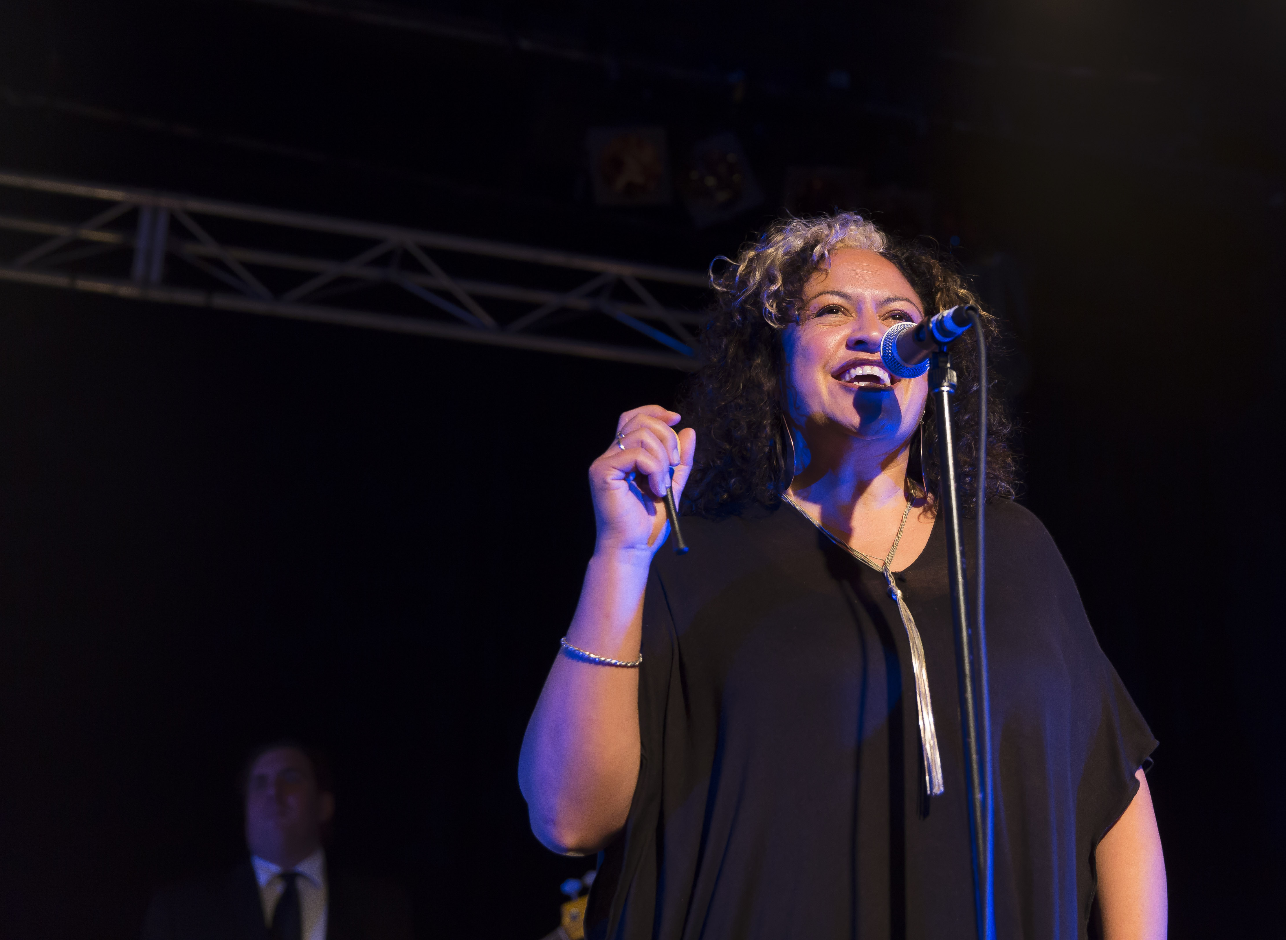 During "Tim Rogers and The Bamboos - The Metro - 19th June 2015"